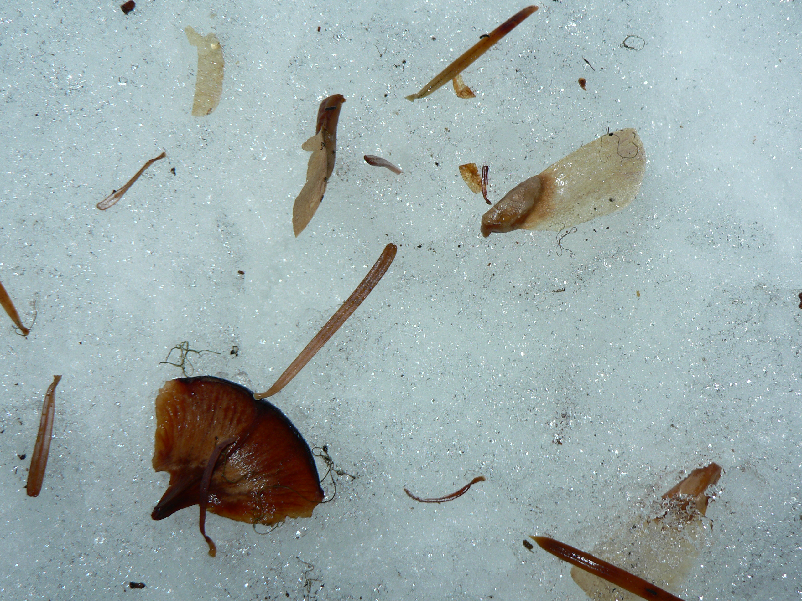 Pacific Silver Fir seeds and scales on early fall snow